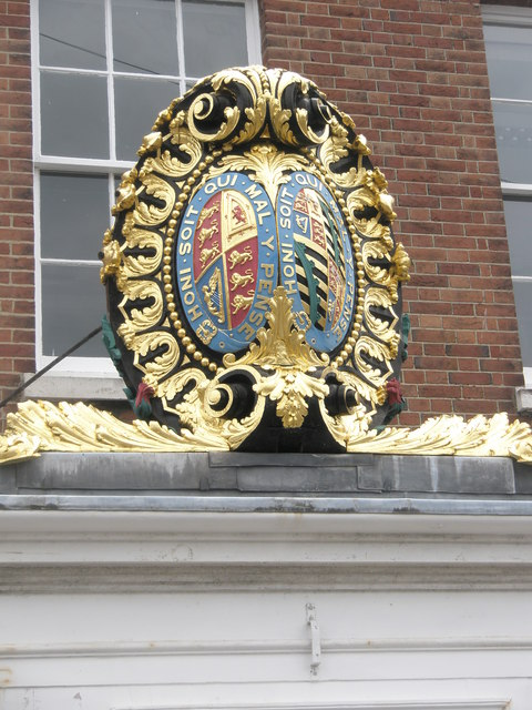 Arms of Alliance of Queen Victoria and Prince Albert. North Office Block within Portsmouth Dockyard; photo taken during the 2008 "Meet the Navy" event. Sinister escutcheon: Royal arms with label for difference, quartering Barry of ten sable and or, over all a Rautenkranz in bend vert (Duchy of Saxony), all circumscribed by the Garter. A Rautenkranz is a "wreath of rue" or "crancelin". Arms of Albert, Prince Consort. Dexter escutcheon, in place of greatest honour, displaying the royal arms, represents his wife Queen Victoria. Both shields circumscribed by the Garter.